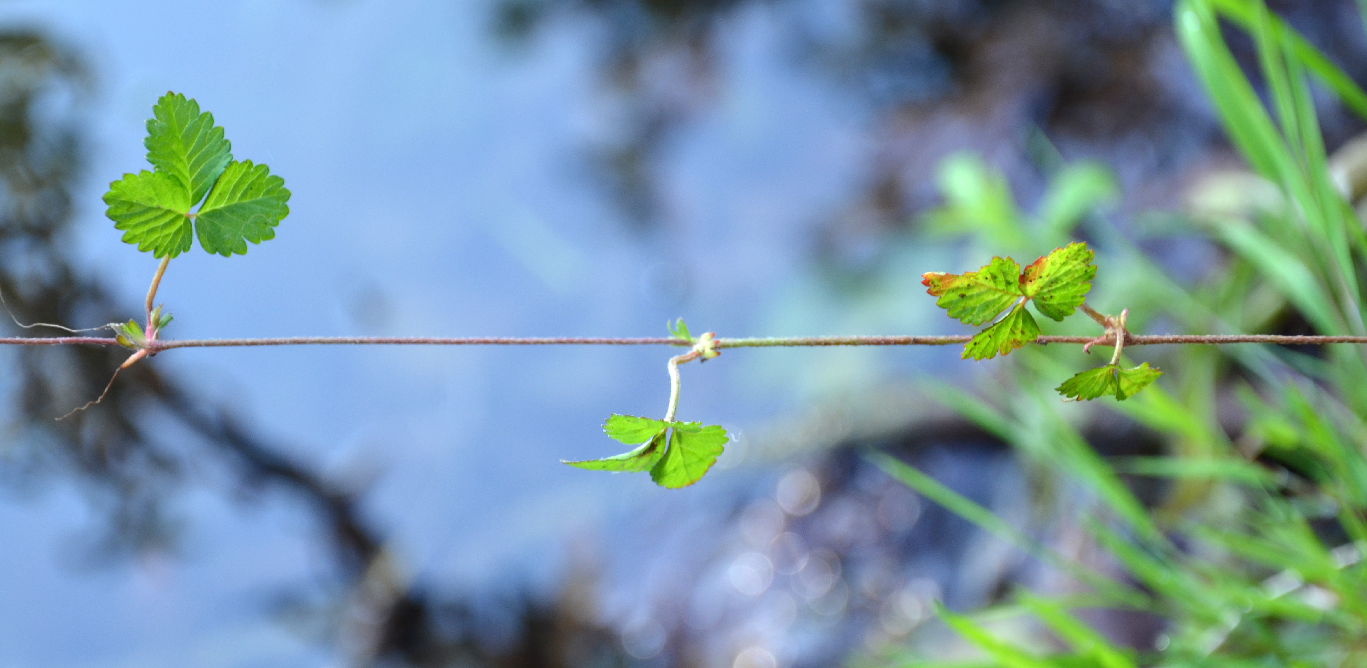 On the edge of a big fishing pond (pond named "Grand Square"), in the wood of the Vauban's Citadel in Lille, on a area moderately trampled by fishermen and walkers, but frequented by ducks, "duchesnaie Indica" has quickly adapted ; with smaller leaves, shorter stolons and daughter plants less spaced, fruit a little smaller. This does not seem to prevent it from multiplying effectively. Unlike what happens in the near woodlands and on roadsides around here the fruits are quickly eaten (by ducks?)